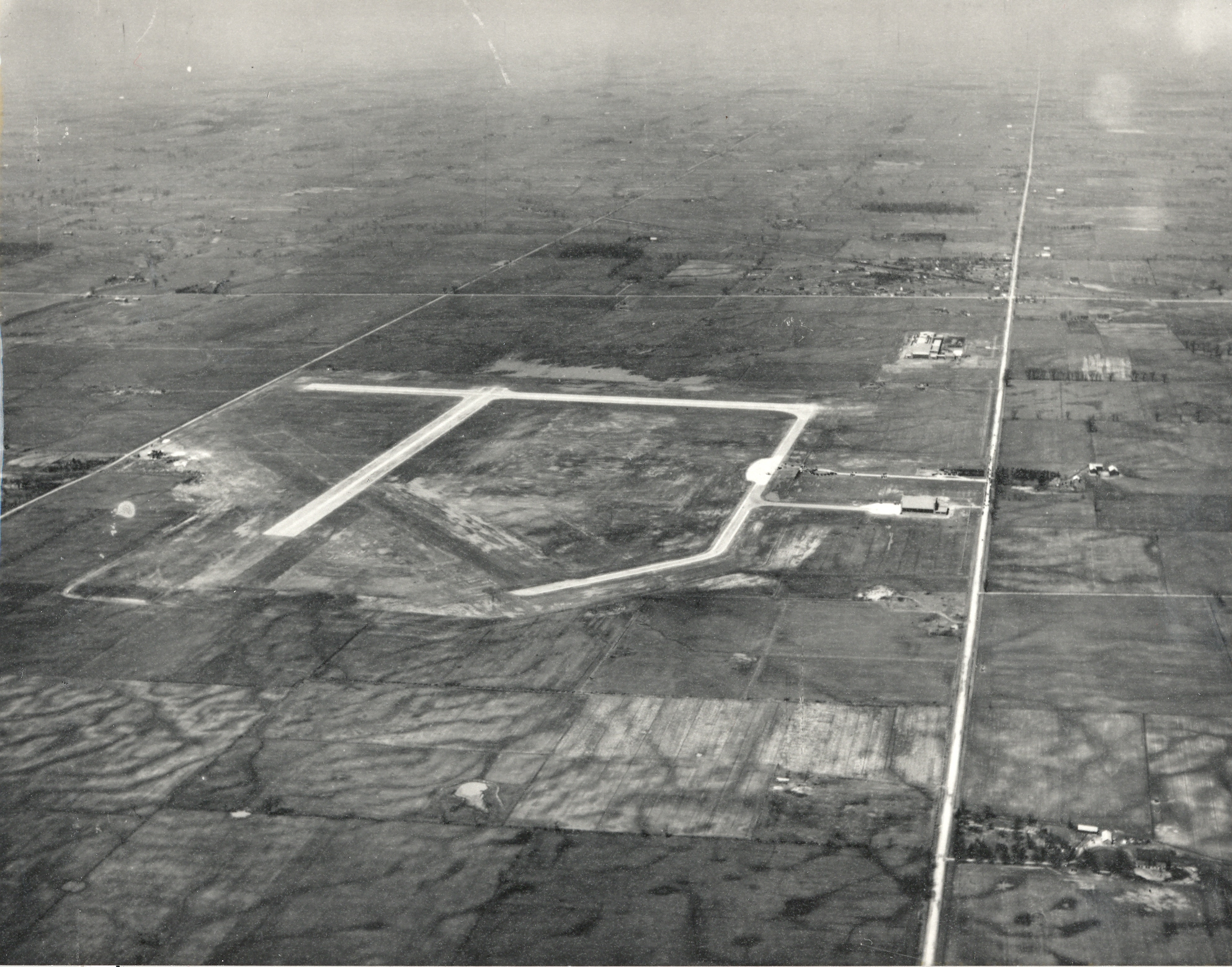 Looking north on Sixth Line (Airport Road)...Malton Airport C1938. National Steel Car and Village of Malton Four Corners can be seen in the top right quadrant